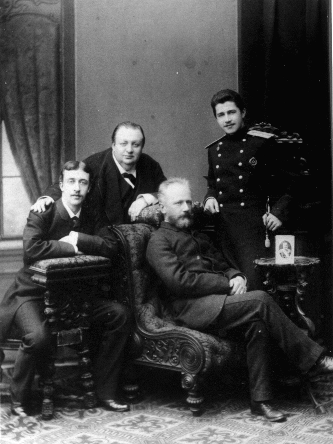 Aleksandr Zhedrinsky, Aleksey Apukhtin, Tchaikovsky, and Georgy Kartsov. Photographed by Sergey Levitsky in Saint Petersburg, March 1884.